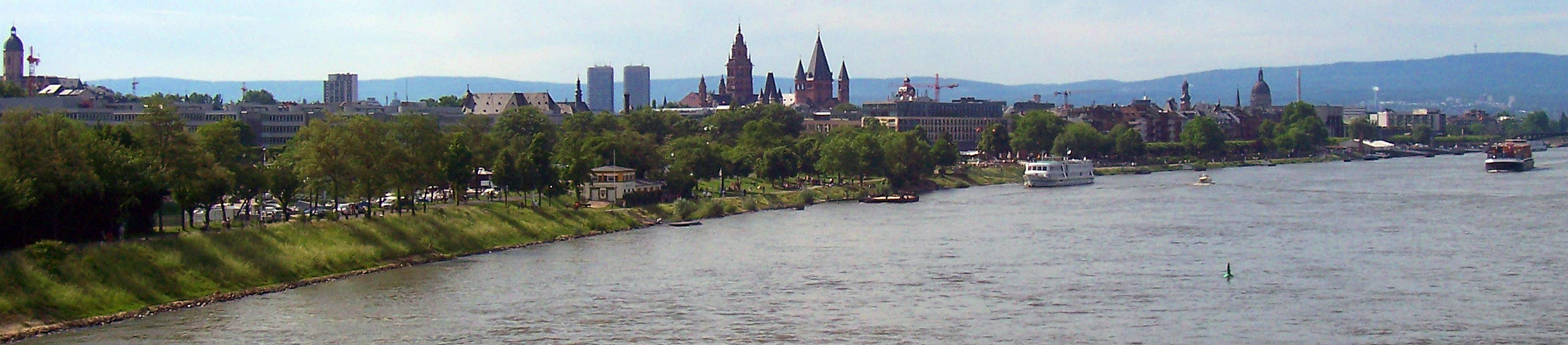 Mainz and it's cathedral viewn from a Bridge over the Rhine, May 2007